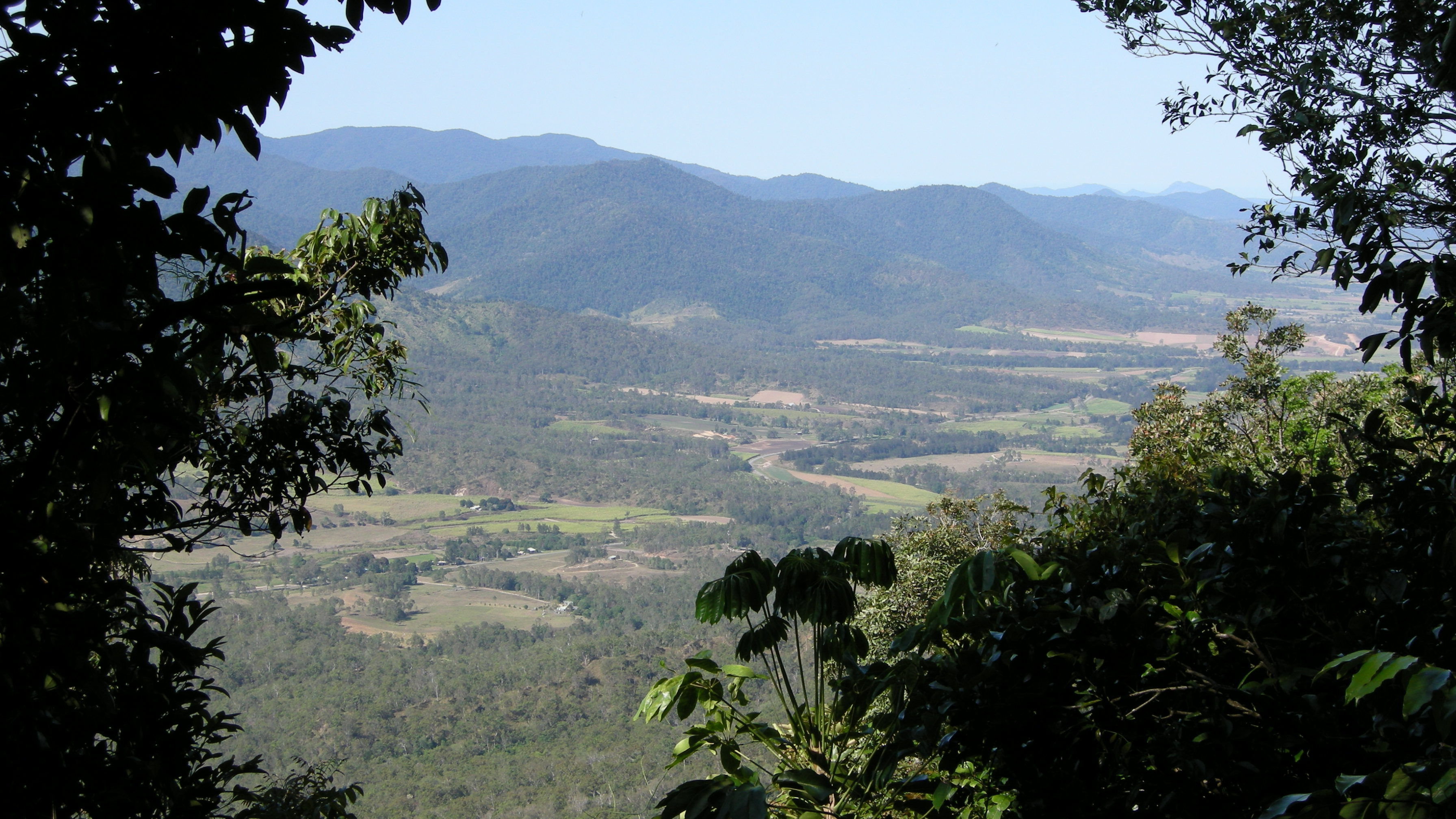 View from Eungella National Park.